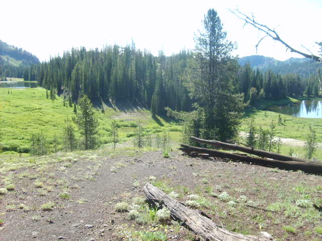 View of both Bonny lakes